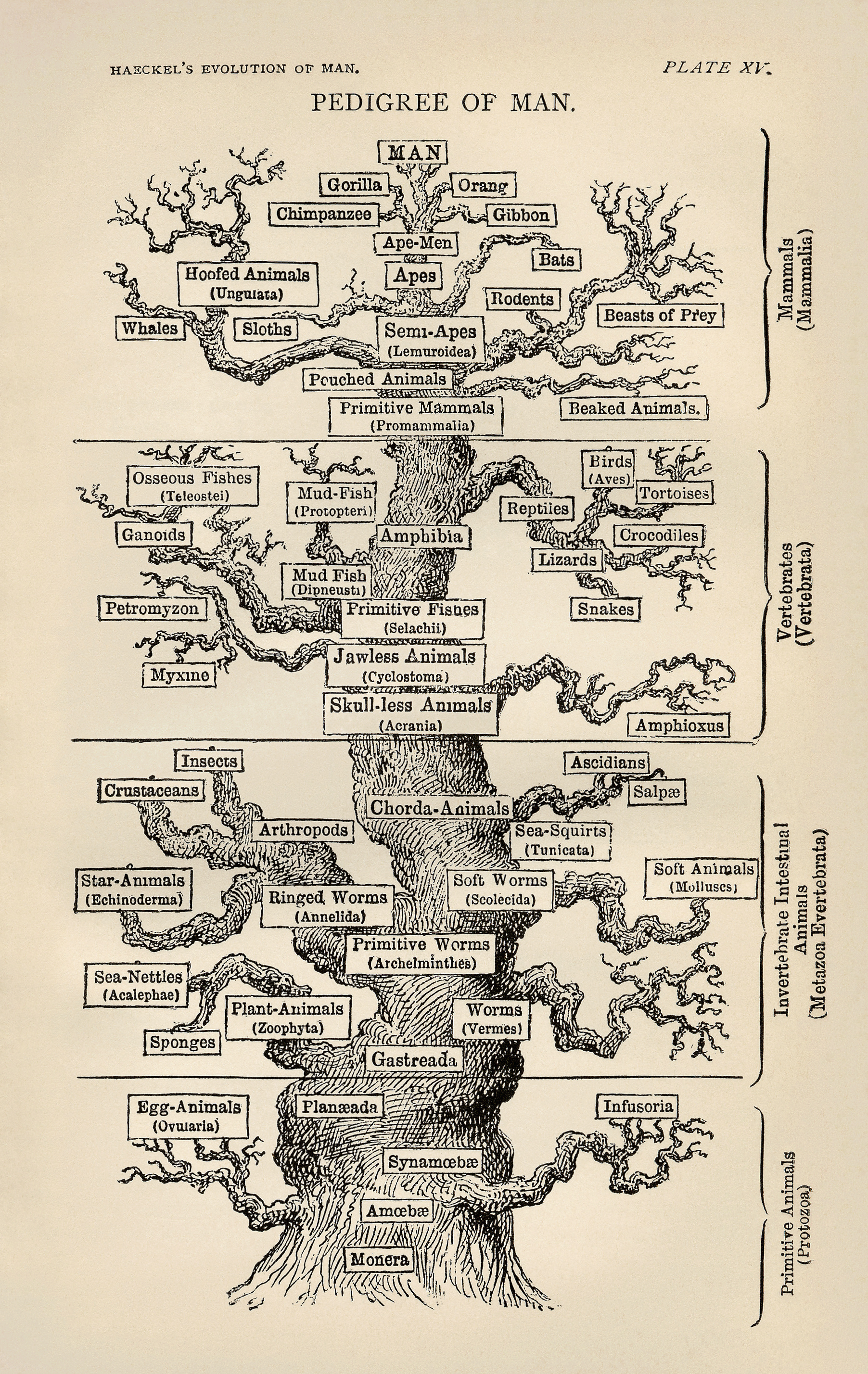 Ernst Haeckel's "tree of life", Darwin's metaphorical description of the pattern of universal common descent made literal by his greatest popularizer in the German scientific world. This is the English version of Ernst Haeckel's tree from the The Evolution of Man (Published 1879), one of several depictions of a tree of life by Haeckel. "Man" is at the crown of the tree; for Haeckel, as for many early evolutionists, humans were considered the pinnacle of evolution.